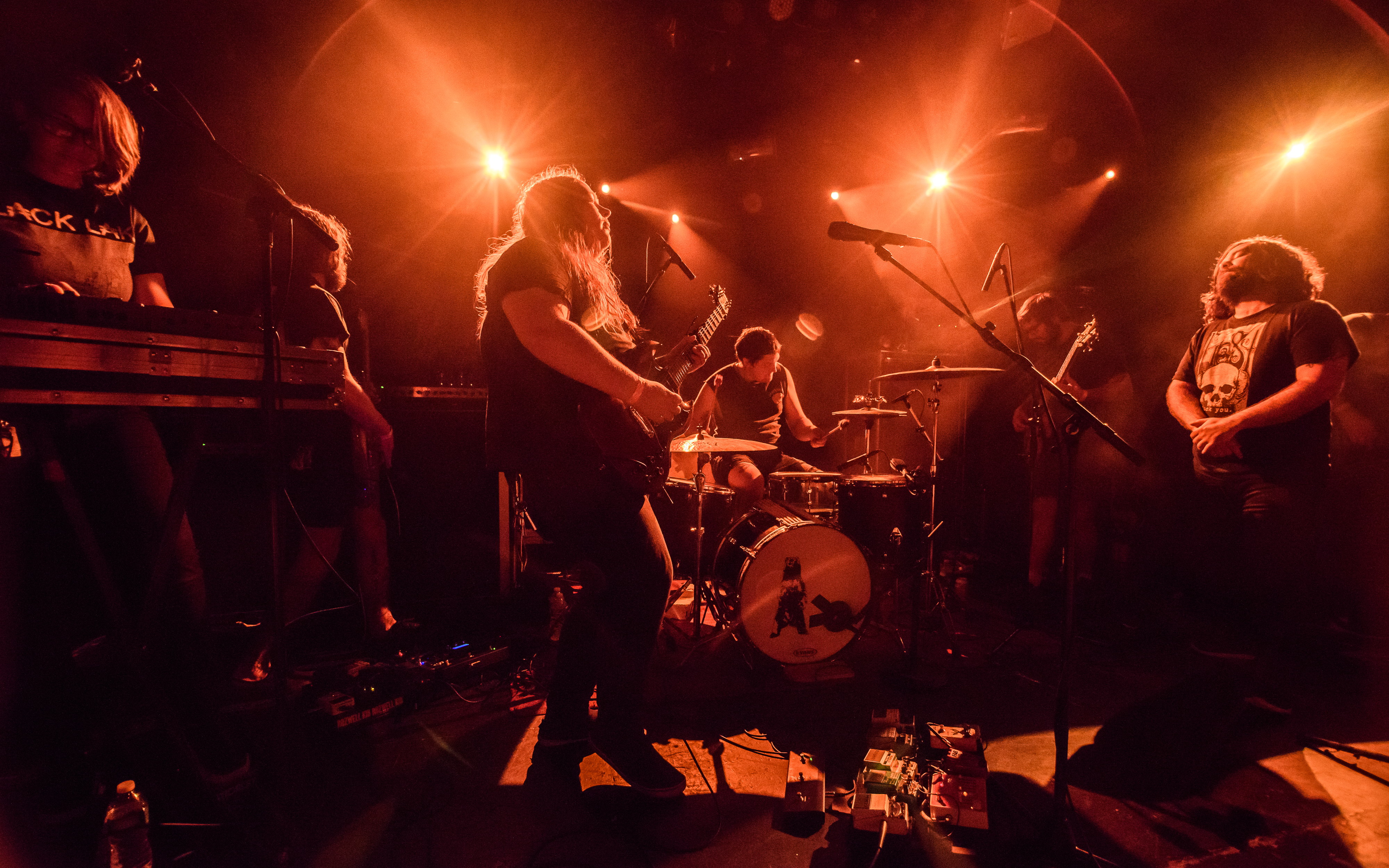 August 22, 2015 Greenwich Village New York, NY